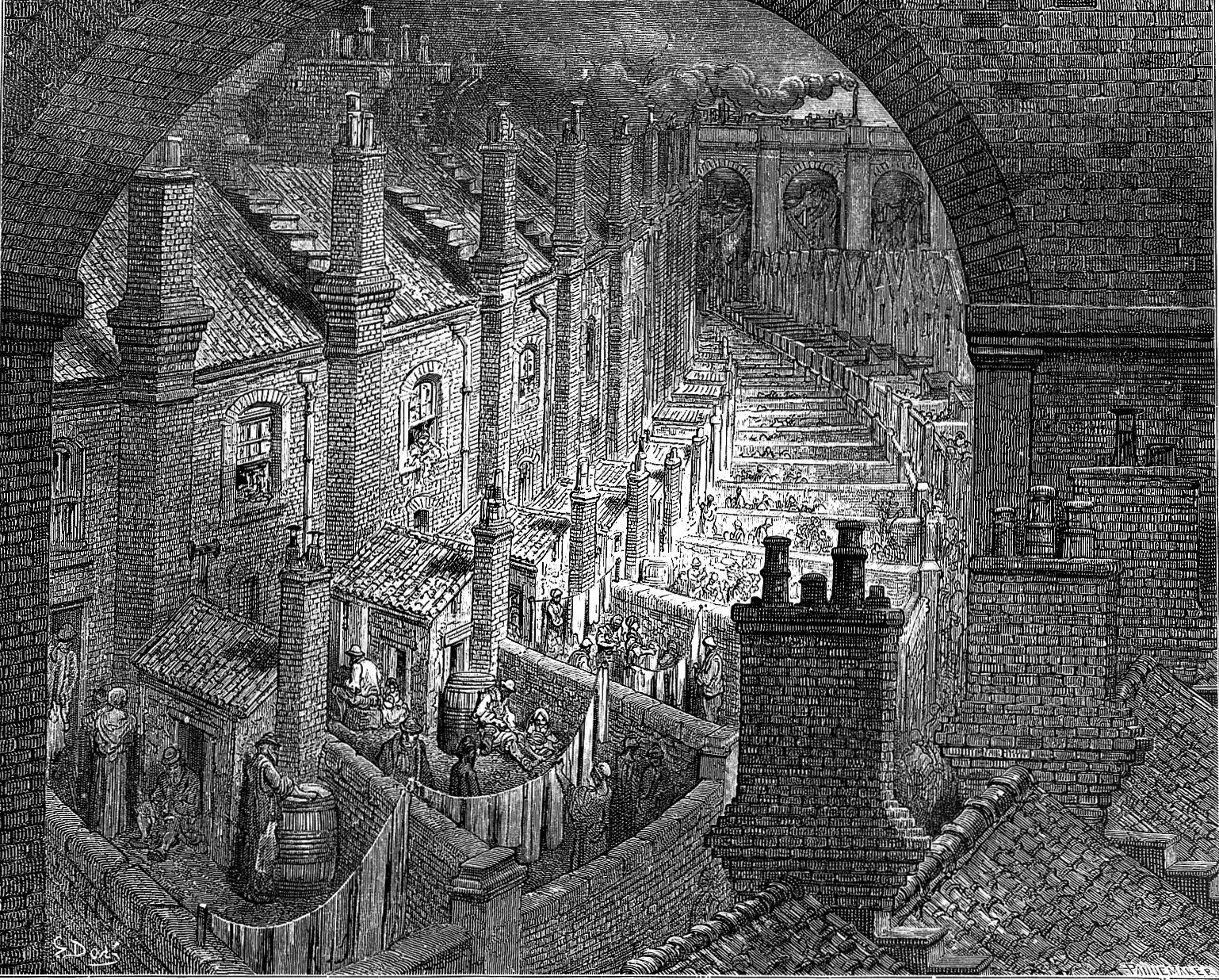 London slums Wellcome Images Keywords: london 19th century; london slums; Gustave Doré; Gustave Doré